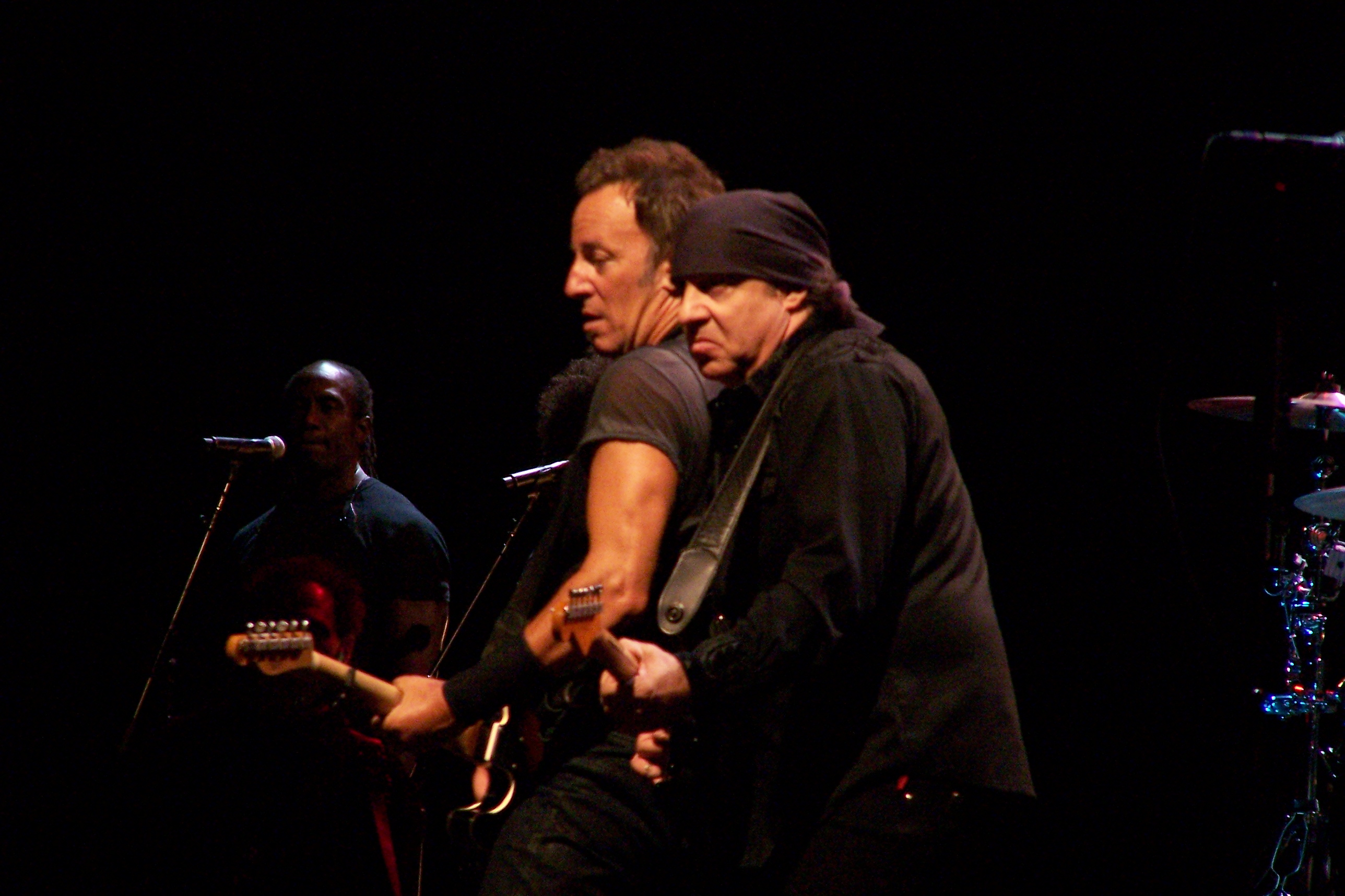 Bruce and Little Steven... Bruce Springsteen Working on a Dream Tour 2009, Valladolid, Spain 01-08-2009